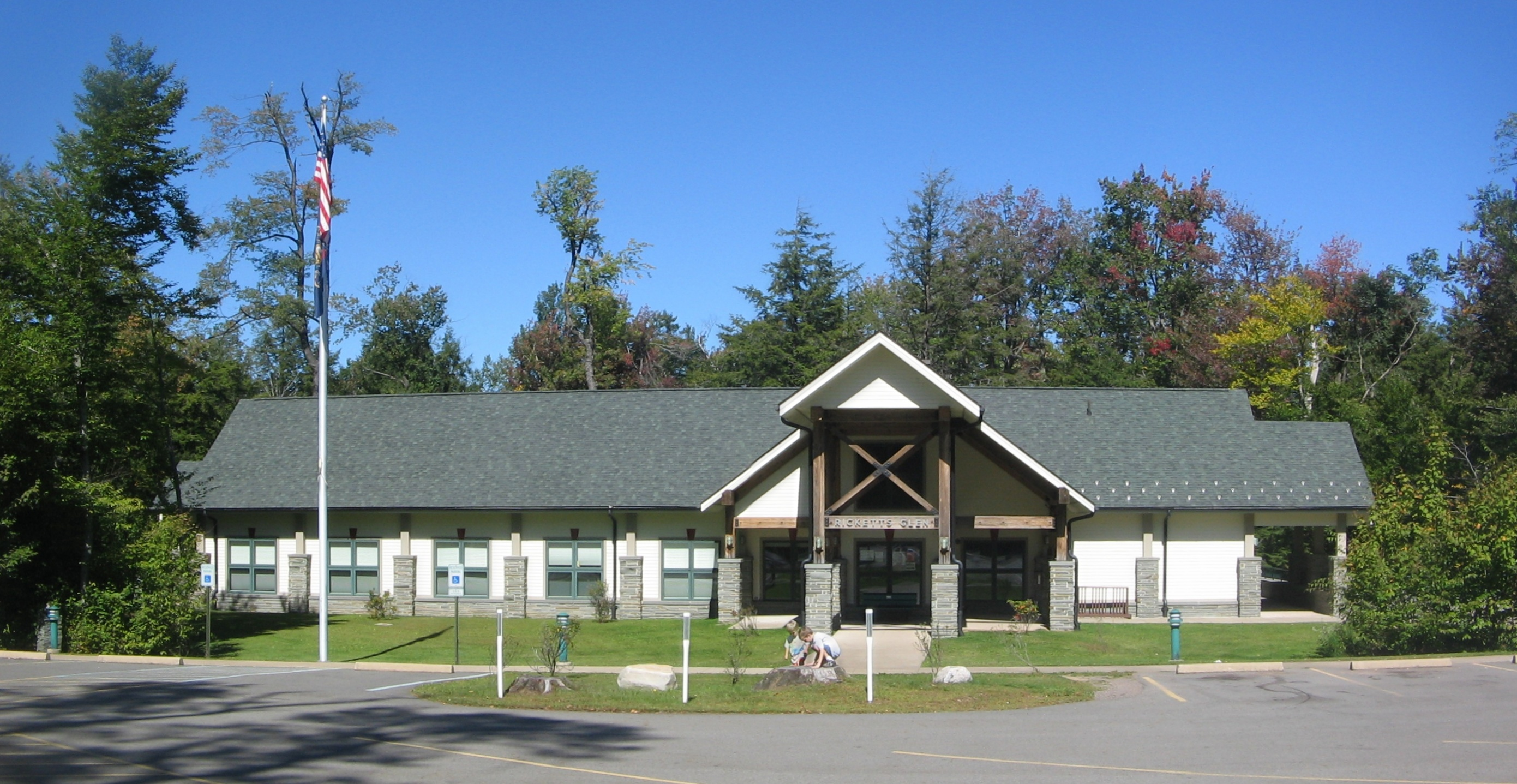 Detail of park office in Ricketts Glen State Park, Sullivan County, Pennsylvania, USA.